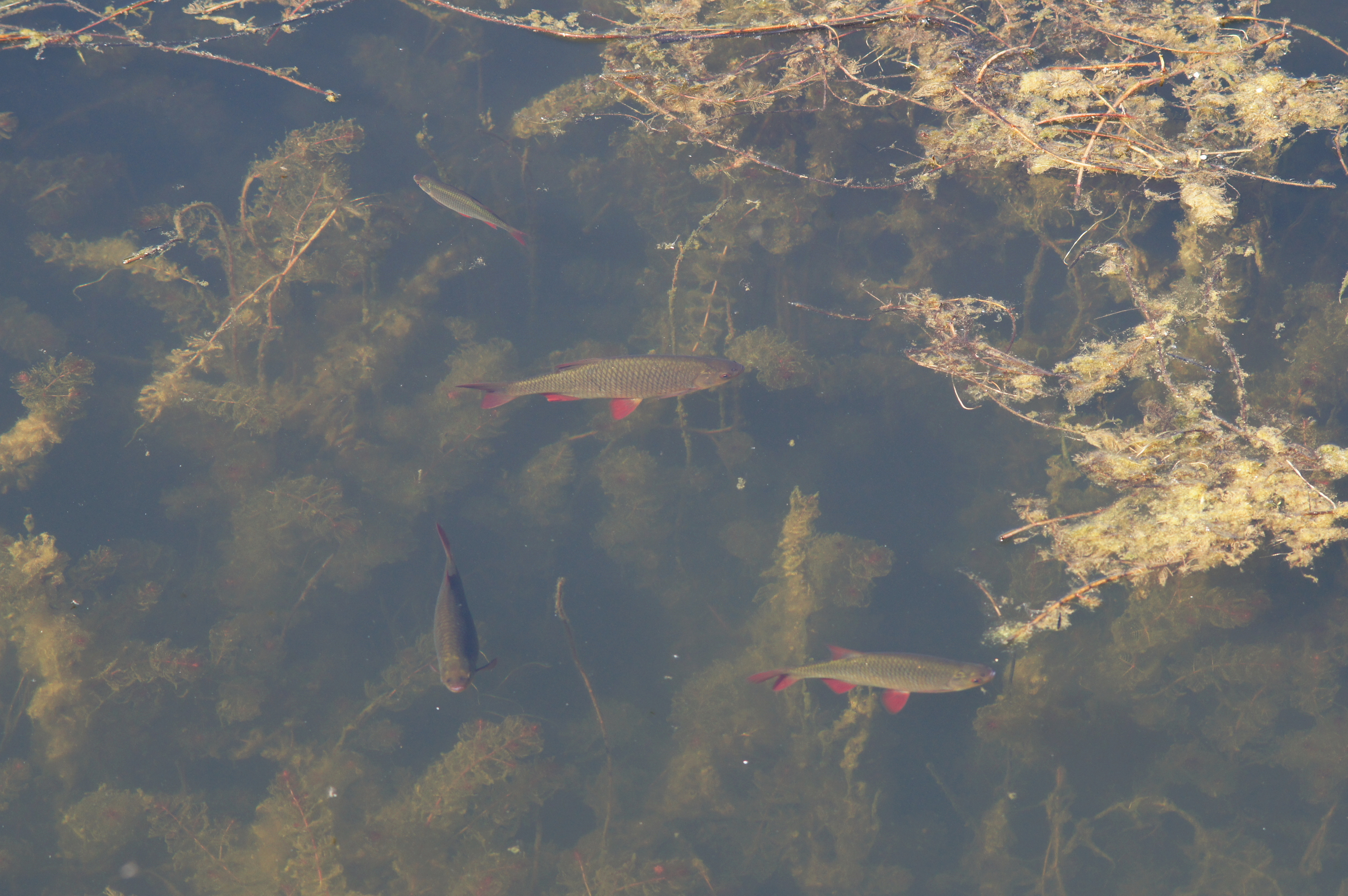 Rudd (Scardinius erythrophthalmus, here with few large sized specimen are fish that prefer mesotrophic waters with a well established under water vegetation.(here Myriophylum and some overgrowth of algae). The mouth opening is toward the water surface. Taken near the river Rhine in the Netherlands.